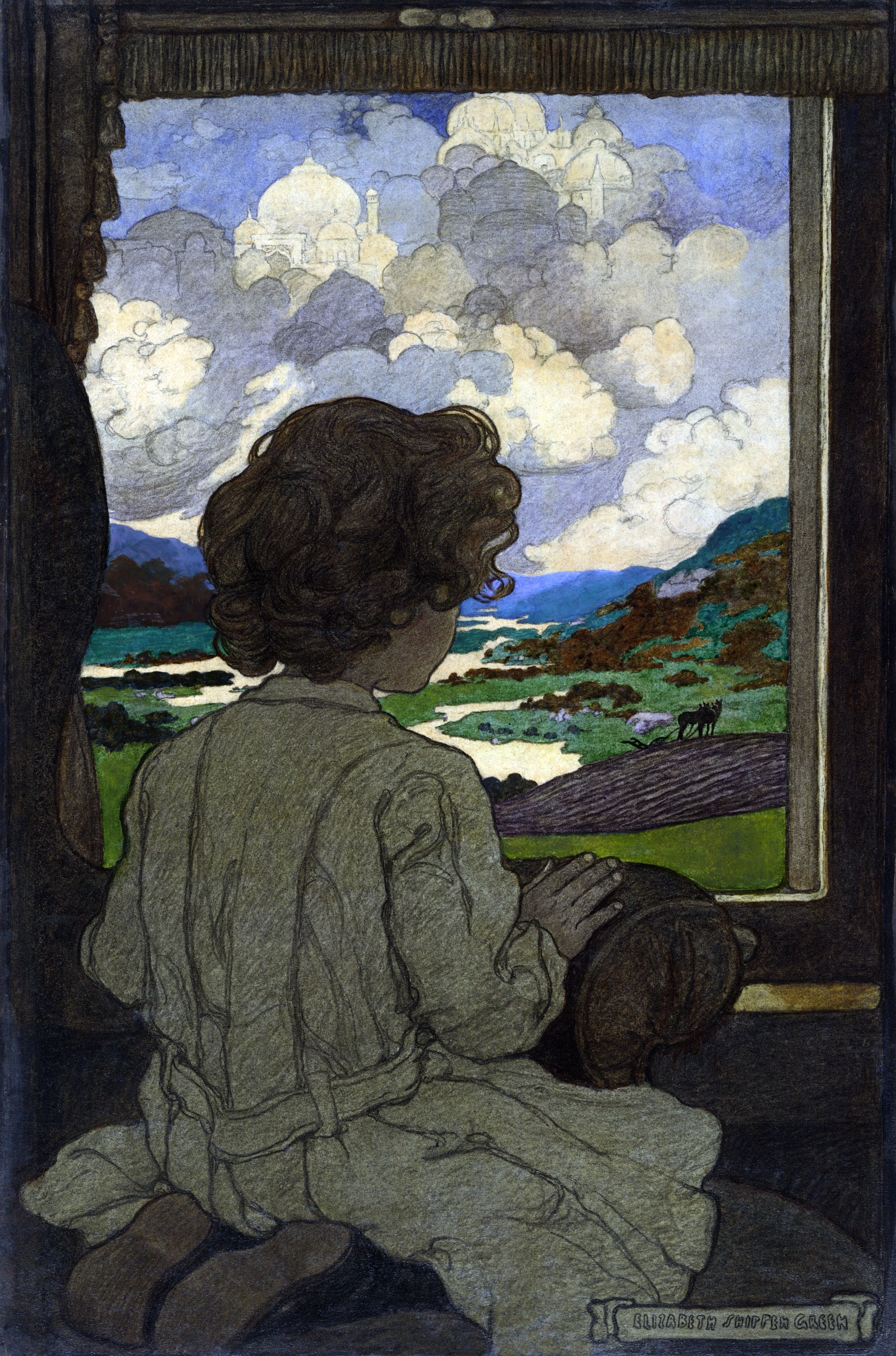 "The Journey": Illustration depicts a young boy absorbed in watching the scenery from his seat in a railway car for a series of poems by Josephine Preston Peabody entitled "The Little Past." The poems relate experiences of childhood from a child's perspective. Published in: "The Little Past : the Journey" by Josephine Preston Peabody, Harper's magazine, 108:95 (Dec. 1903). 1 painting : oil. Digital file from original.